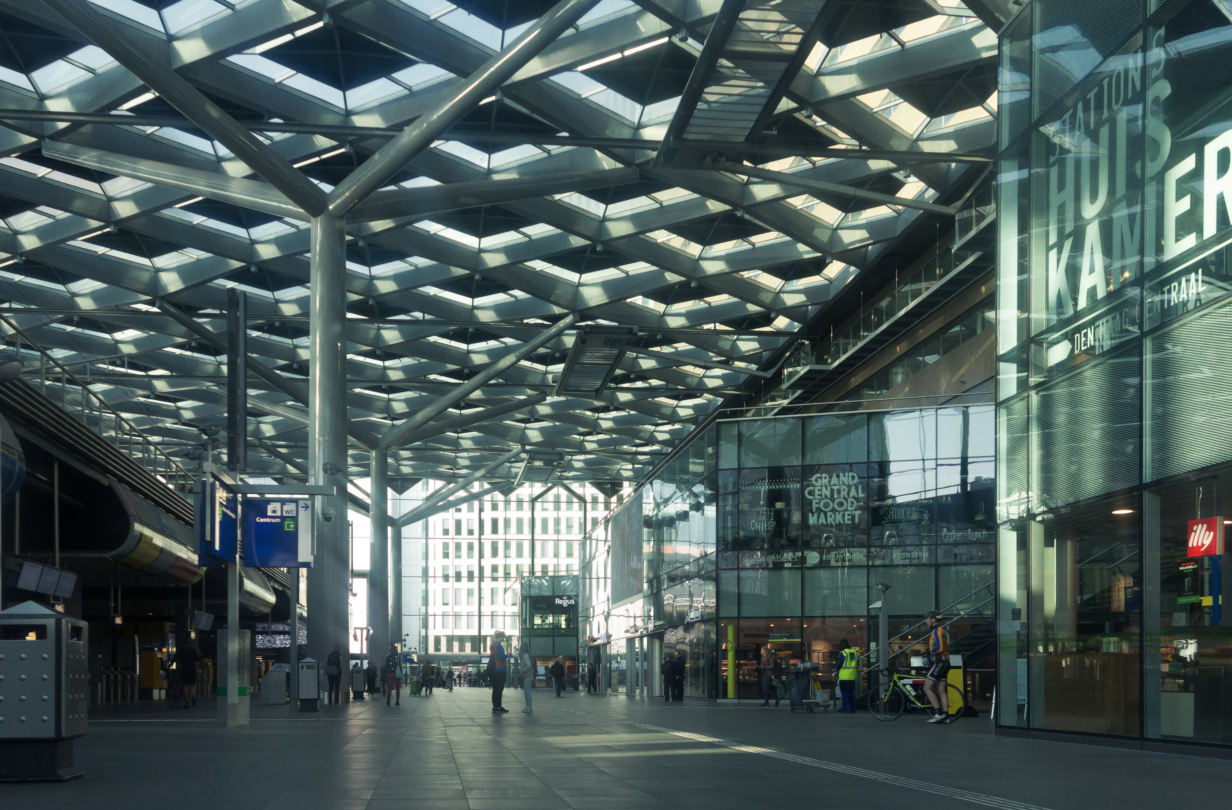 The Hague, hall of Station Centraal